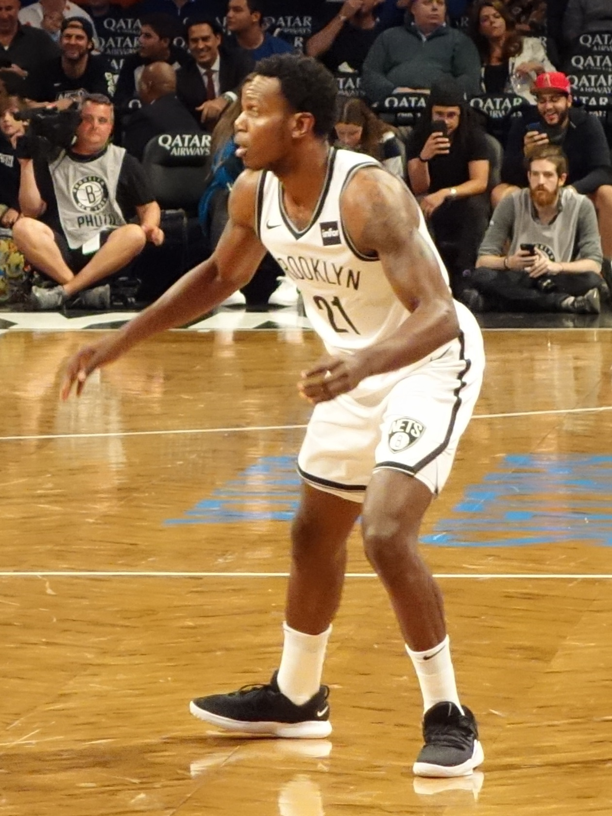 Brooklyn Nets player Treveon Graham during the first quarter of the NBA Preseason game between the Brooklyn Nets and the New York Knicks at the Barclays Center on October 3, 2018. Graham played the previous two seasons with the Charlotte Hornets.